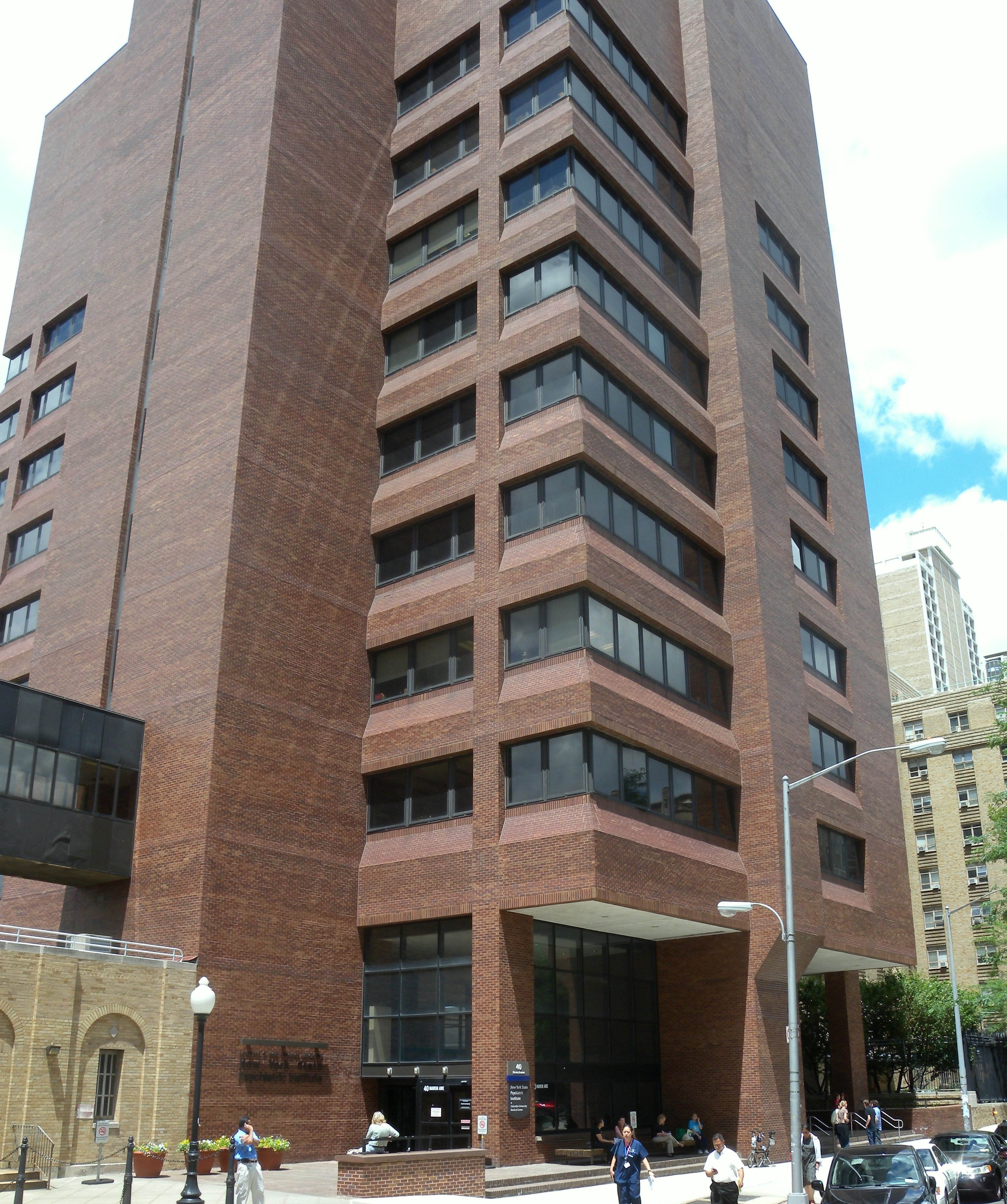 Looking north along Haven Avenue at New York State Psychiatric Institute on a sunny midday.